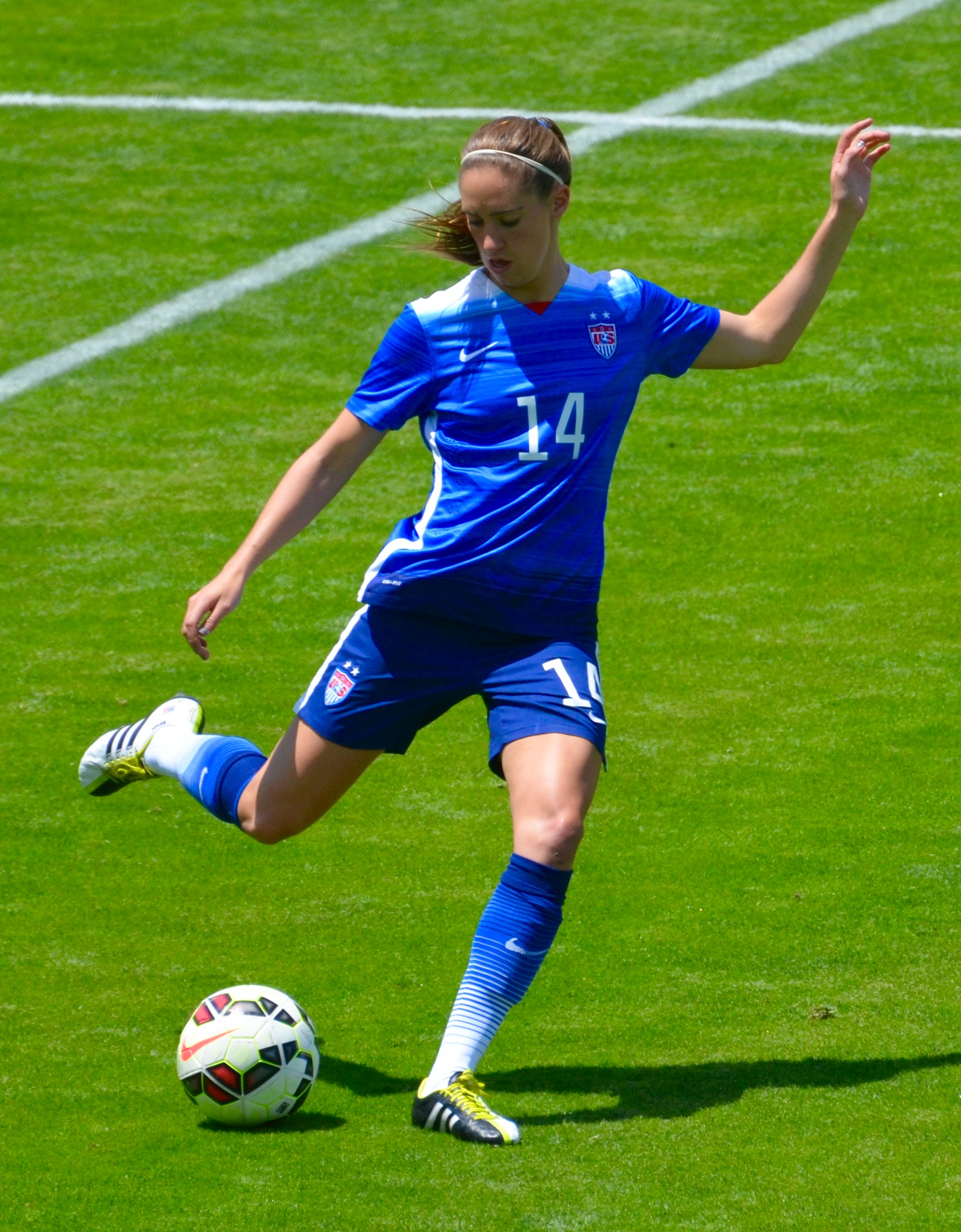 Morgan Brian playing for the US Women's National team in San Jose, California on 10 May 2015.